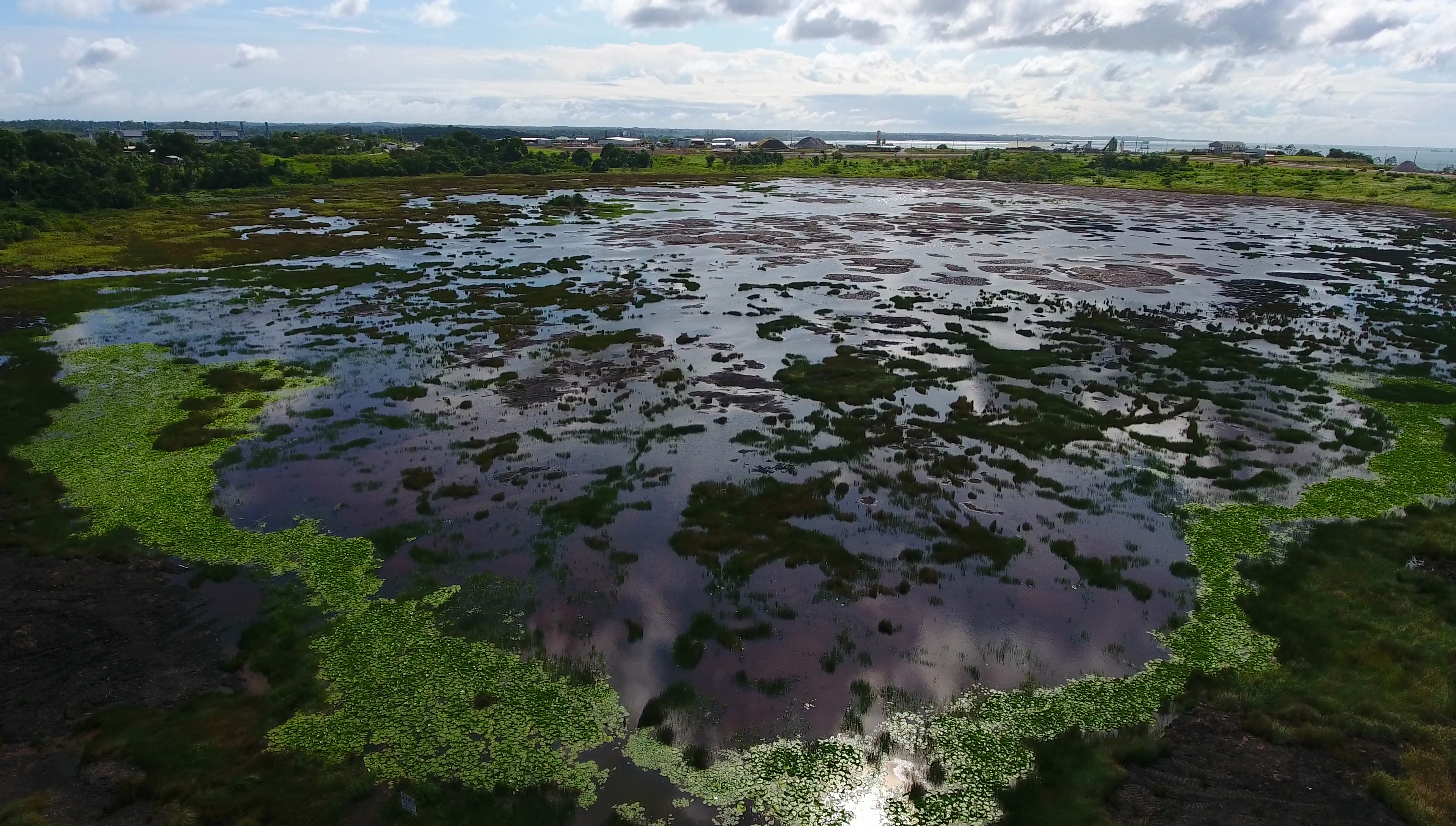 La Brea Pitch Lake, La Brea, Siparia, Trinidad and Tobago. Photo taken as part of the Southern Trinidad Aerial Photo Project, a small project sponsored by WMDE. Drone used: DJI Phantom 4. Snapshot taken from video footage via VLC.